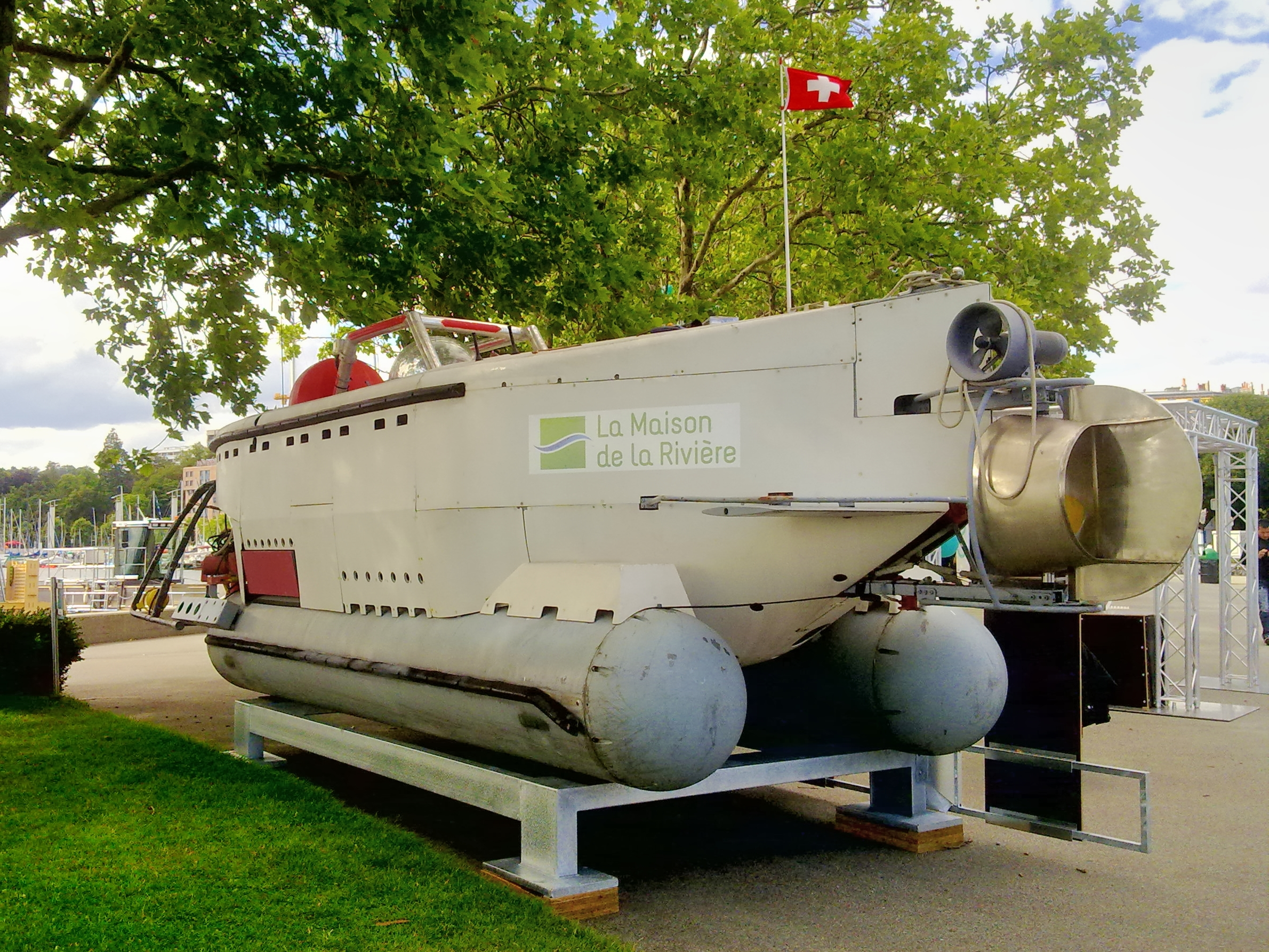 F.-A. Forel on display at Ouchy during the Elemo programme